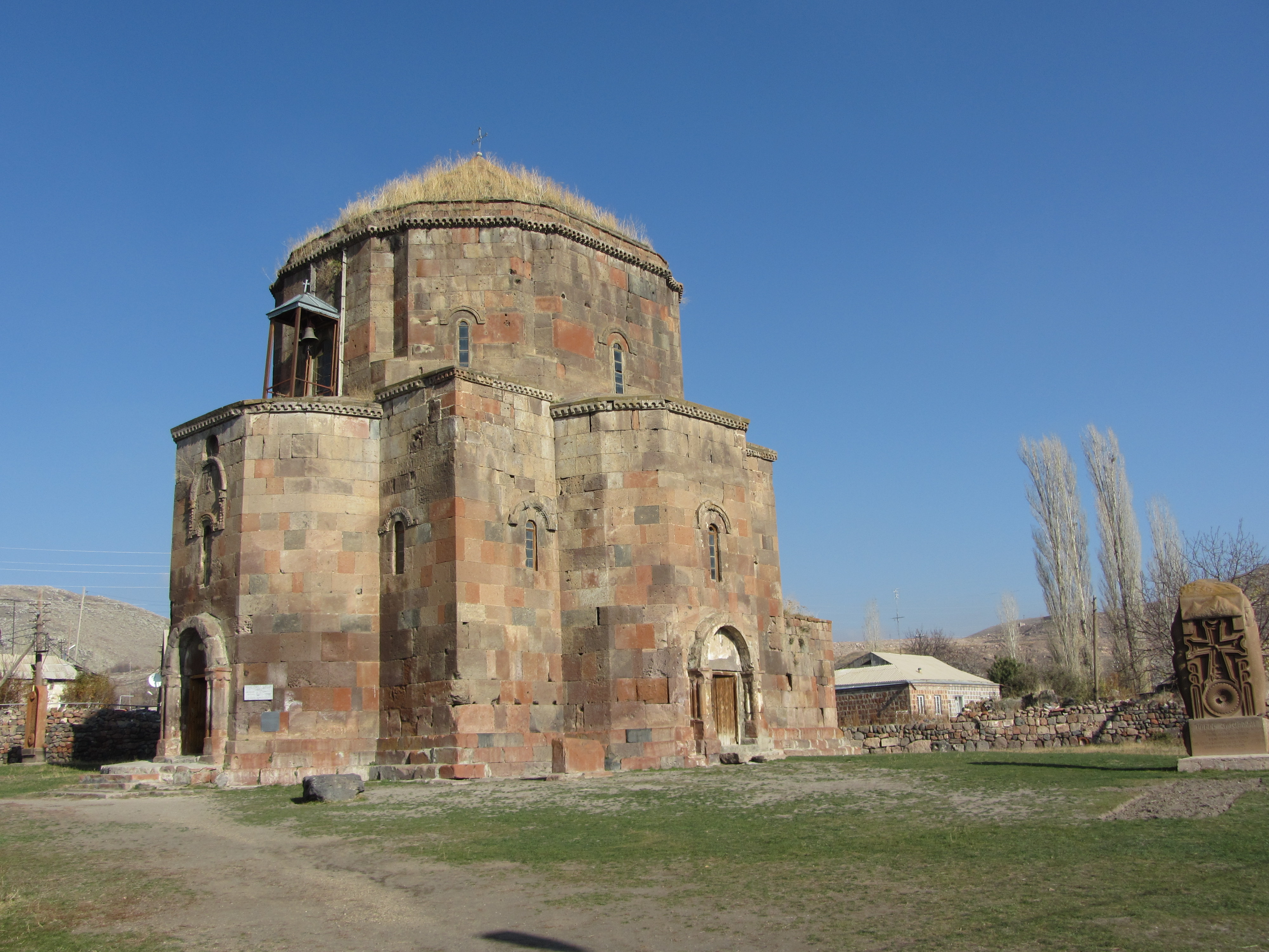 Mastara, Surb Hovanes Church (6c.)